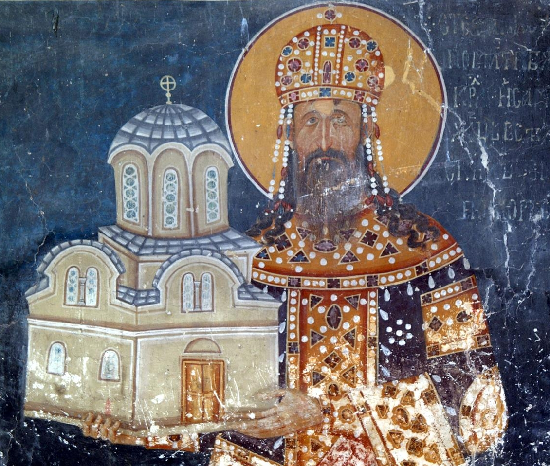 The fresco of king Stefan Milutin, King`s Church in Studenica, Serbia